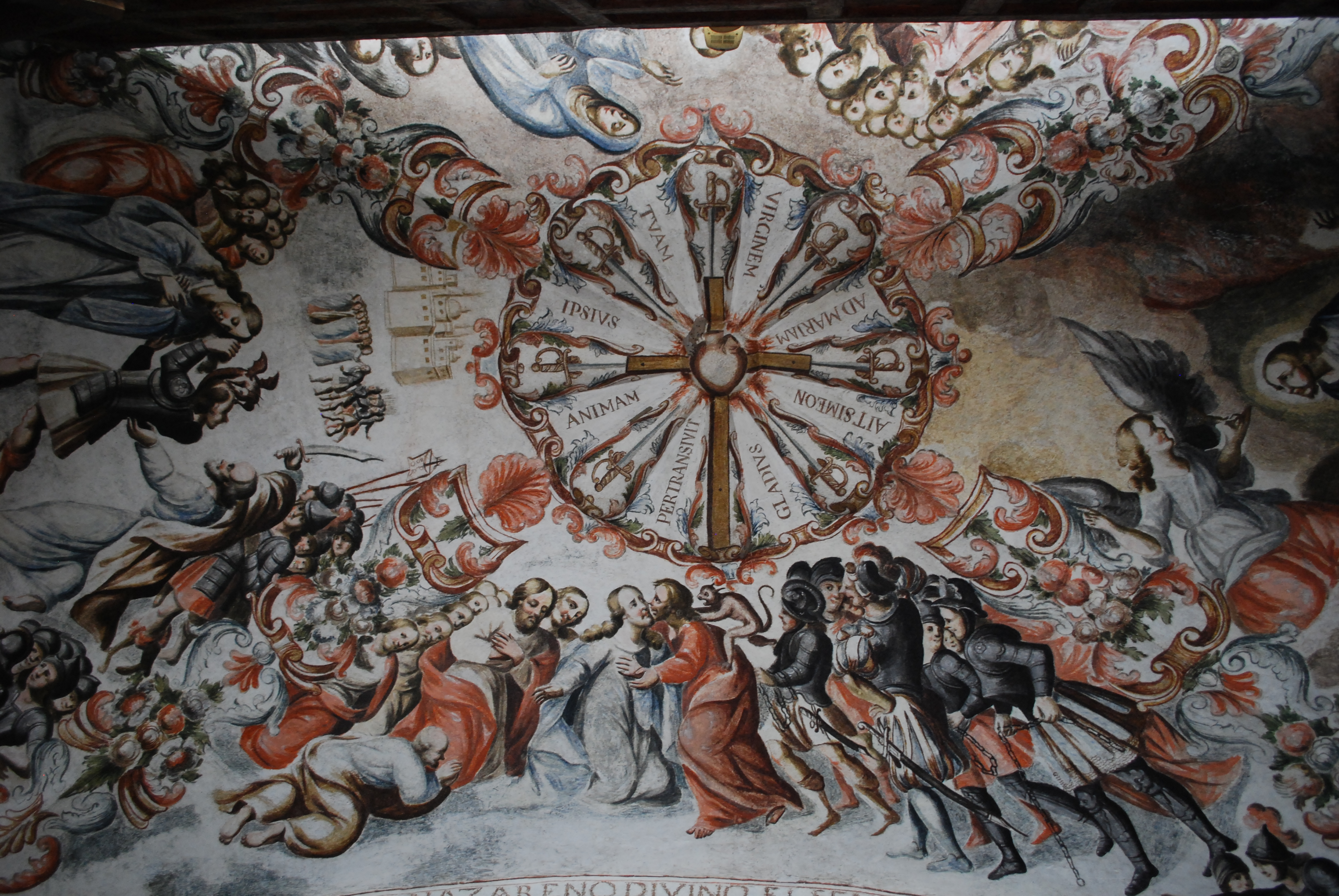 One section of the painted ceiling of the Sanctuary of Atotonilco, San Miguel de Allende, Guanajuato, Mexico